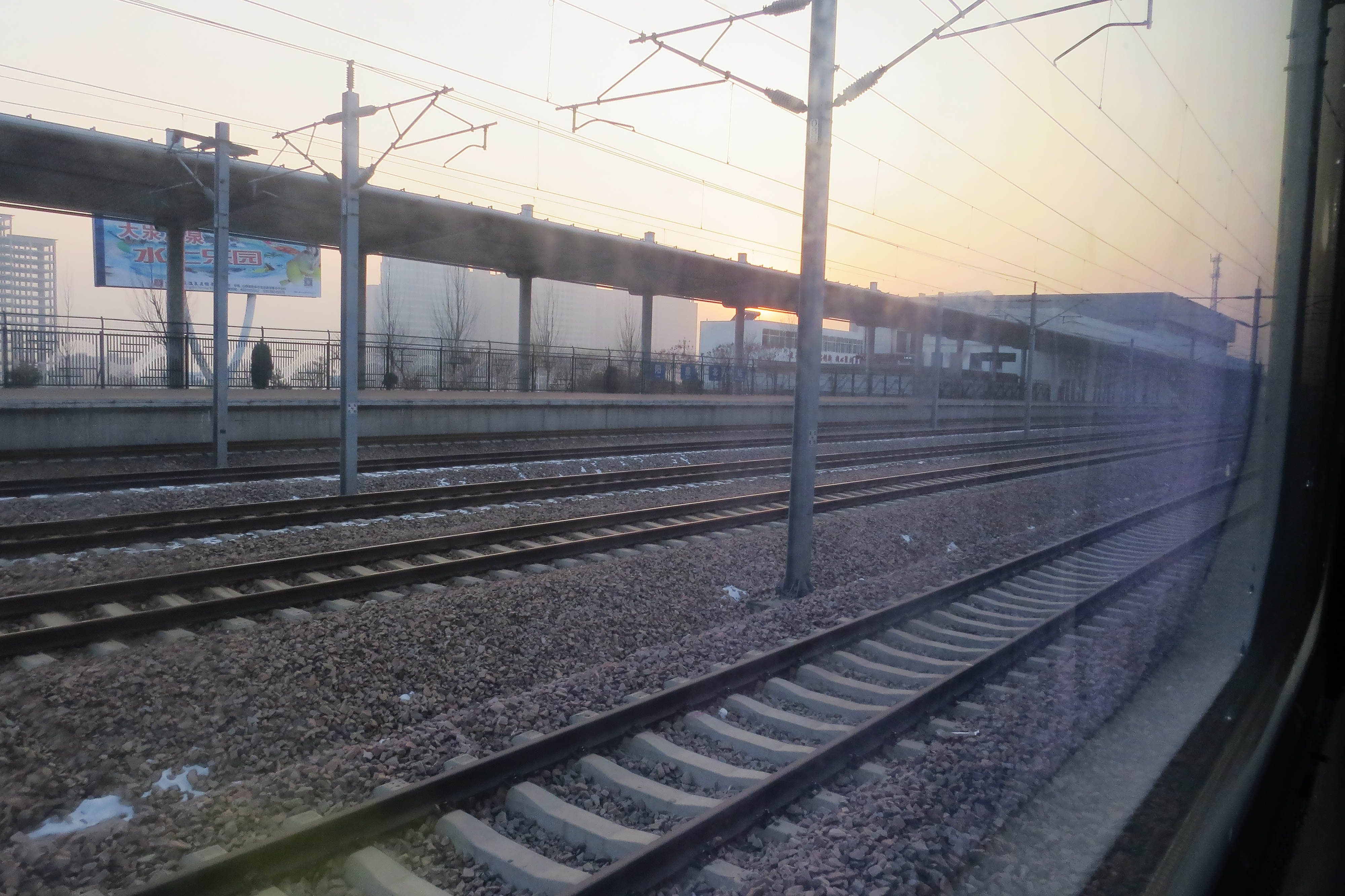 In Yu County, more than an hour to downtown Yangquan.